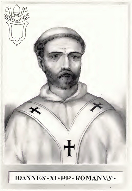 This illustration is from The Lives and Times of the Popes by Chevalier Artaud de Montor, New York: The Catholic Publication Society of America, 1911. It was originally published in 1842.